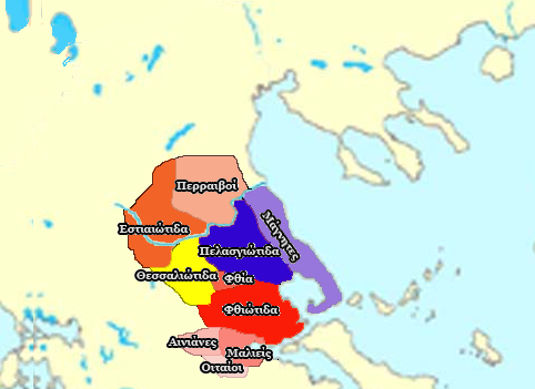 Ancient Thessaly map in Greek